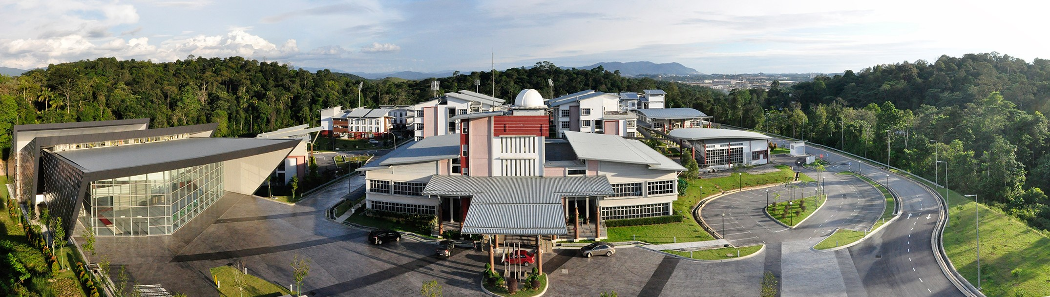 A panoramic picture of PERMATApintar National Gifted Center, UKM. Taken from the water tower nearby.